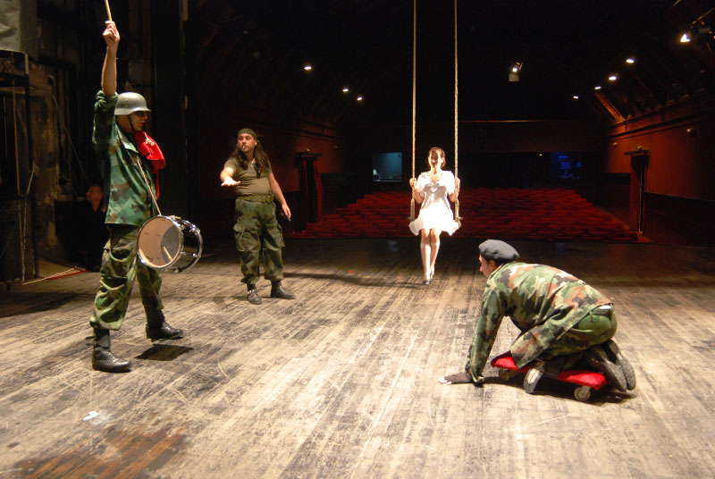 Play of the Knjaževsko-srpski teatar